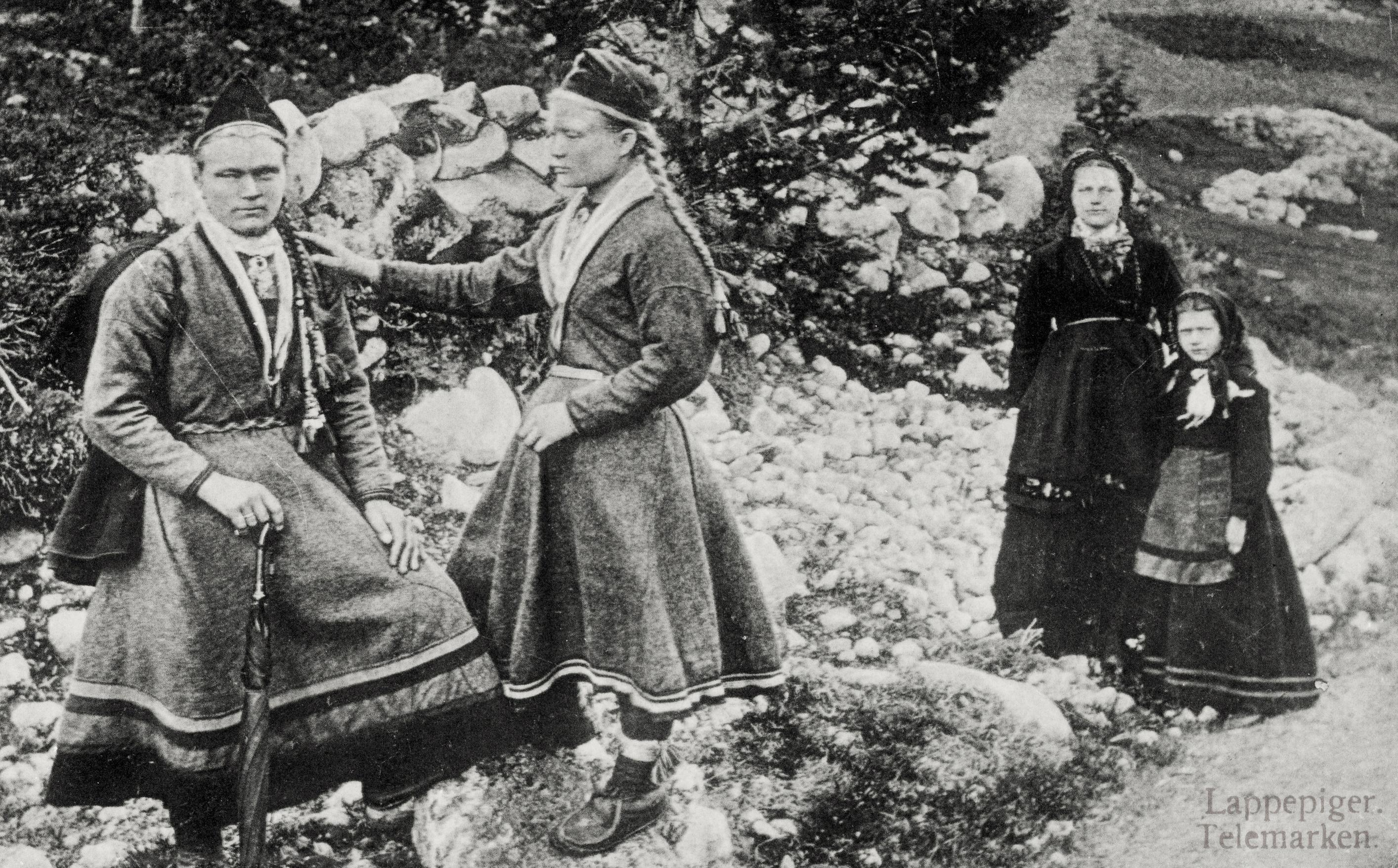 This old photo from late 1880 are of Sami girls from Telemark County in Southern Norway. Text on the photo is “Lappepiger. Telemarken.” Dette gamle foto fra sent på 1880-tallet er av samiske jenter fra Telemark fylke i Sør-Norge. Teksten på foto er ” “Lappepiger. Telemarken.” M. M. Lohne. Telemark.